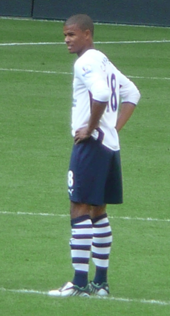 Fraizer Campbell playing for Tottenham Hotspur in a match versus Wigan Athletic, September 21st 2008.